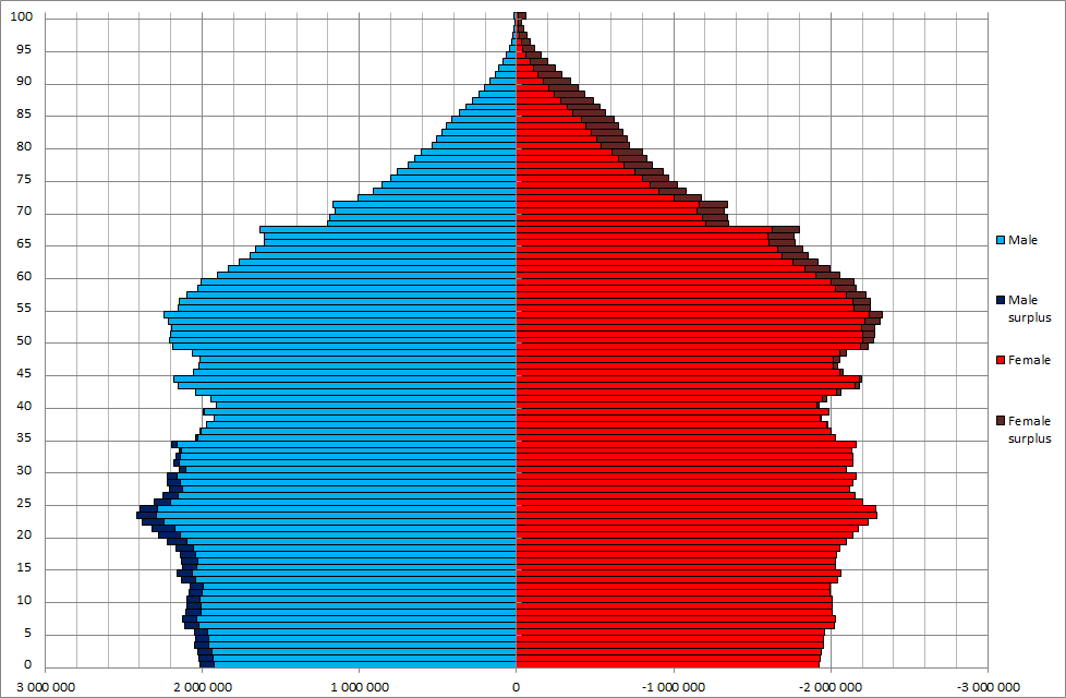 Population of the USA by age and sex (demographic pyramid) as on 01 June, 2014